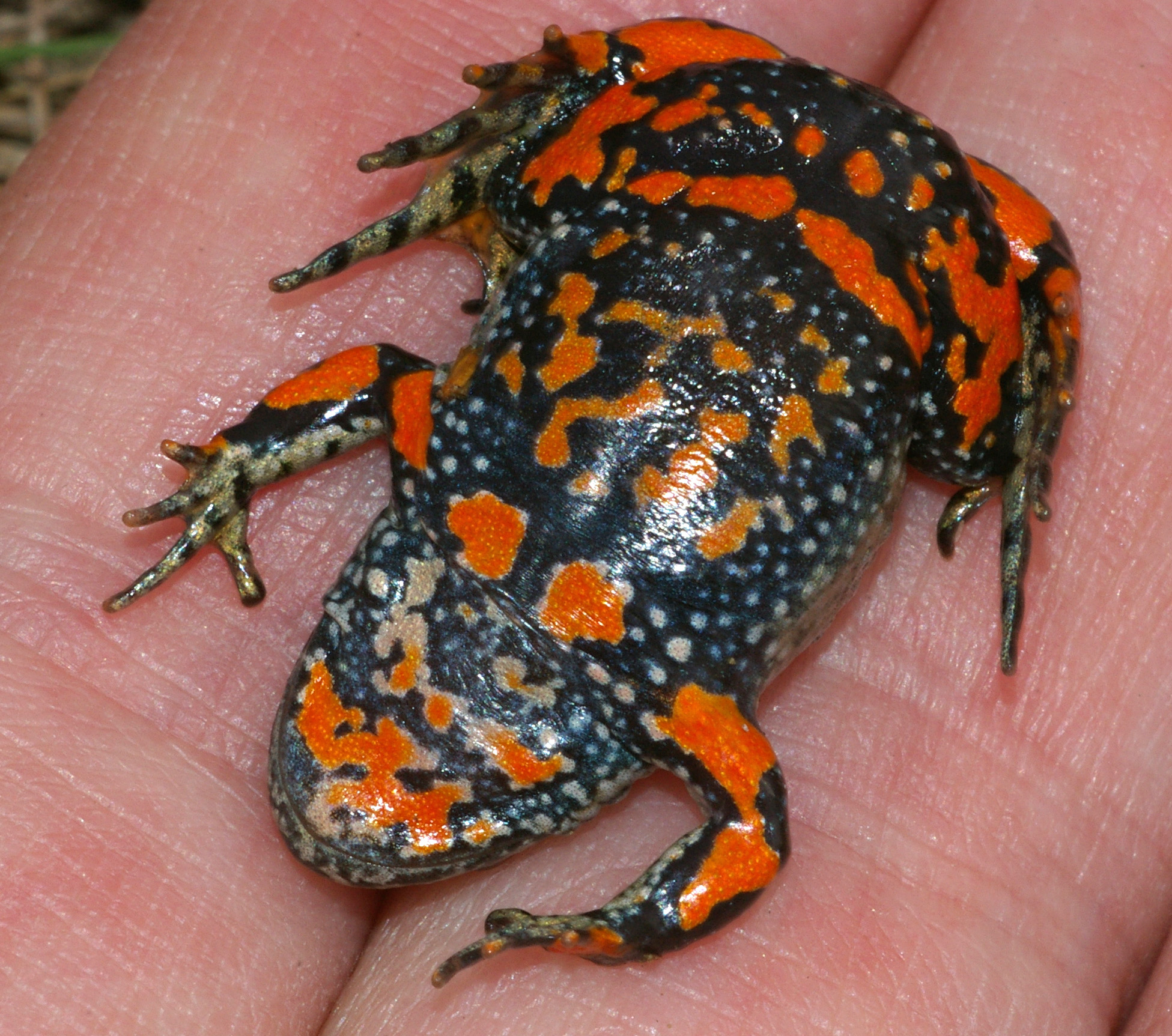 Ventral side of a European Fire-bellied Toad (Bombina bombina); juvenile specimen. The animal has been turned around by the author.